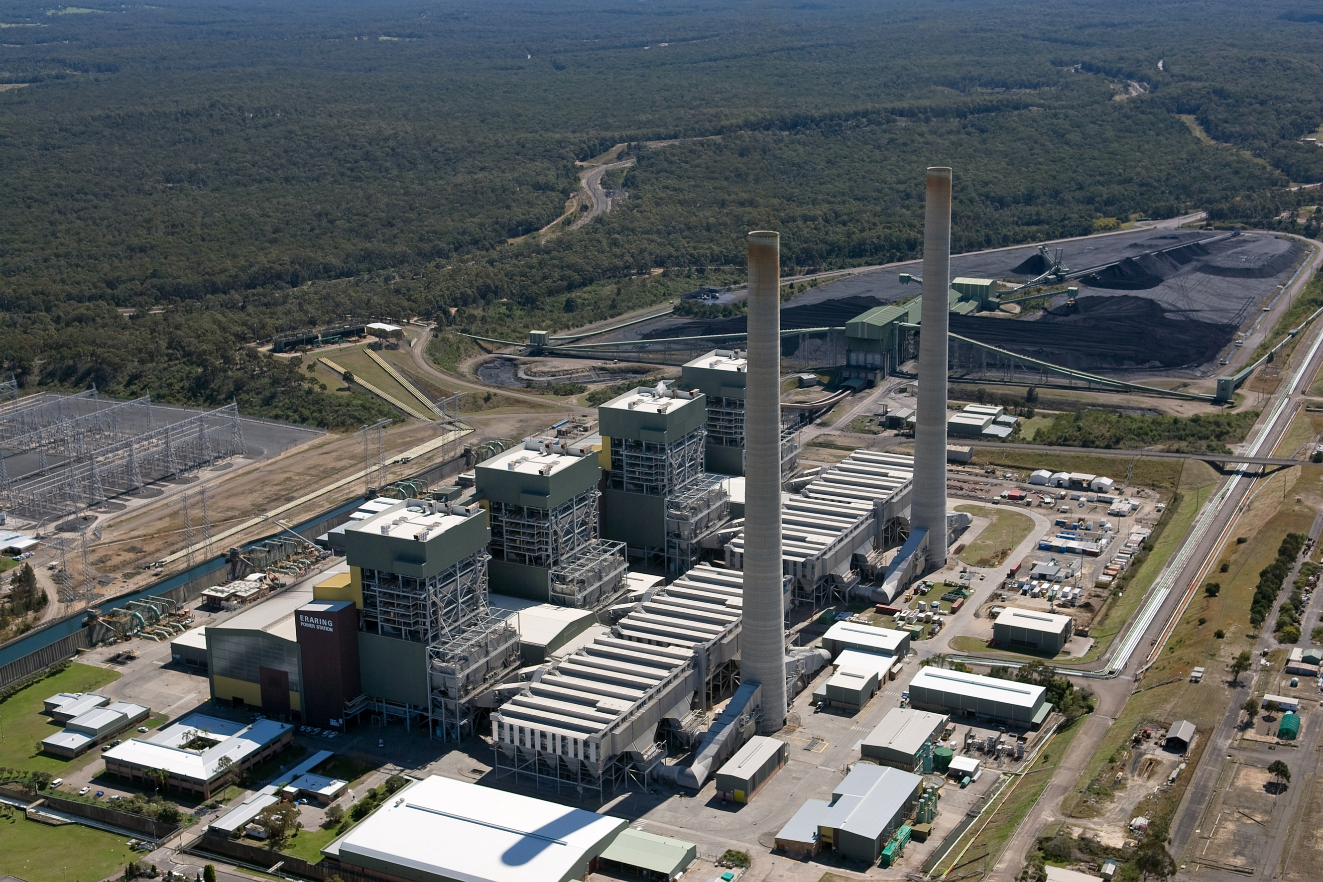 Eraring power station is a black coal-fired power station on the shores of Lake Macquarie, southeast of Newcastle, NSW. Its four steam turbines give it a generating capacity of 2640 megawatts, making it the equal largest power station in Australia in terms of generating capacity. Eraring substation on the left.